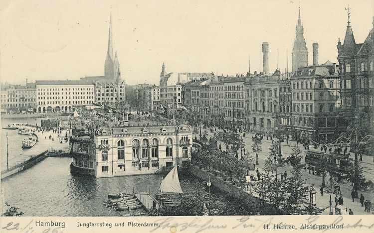 Alsterpavilion Hamburg, Germany 1906